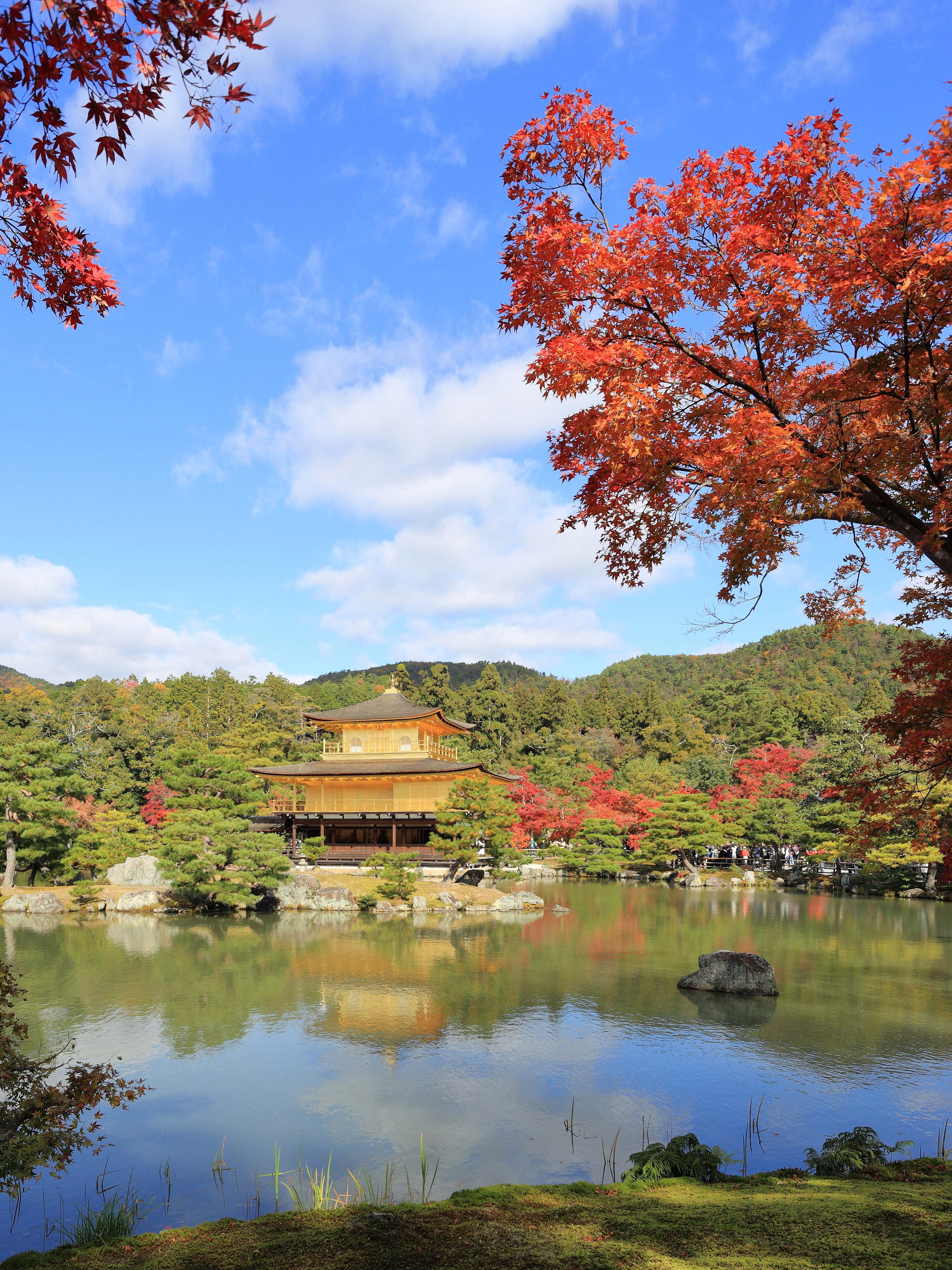 The Kinkaku-ji, or temple of the Golden Pavillion, in Kyoto, Japan, part of UNESCO World Heritage Site Ref. Number 688.